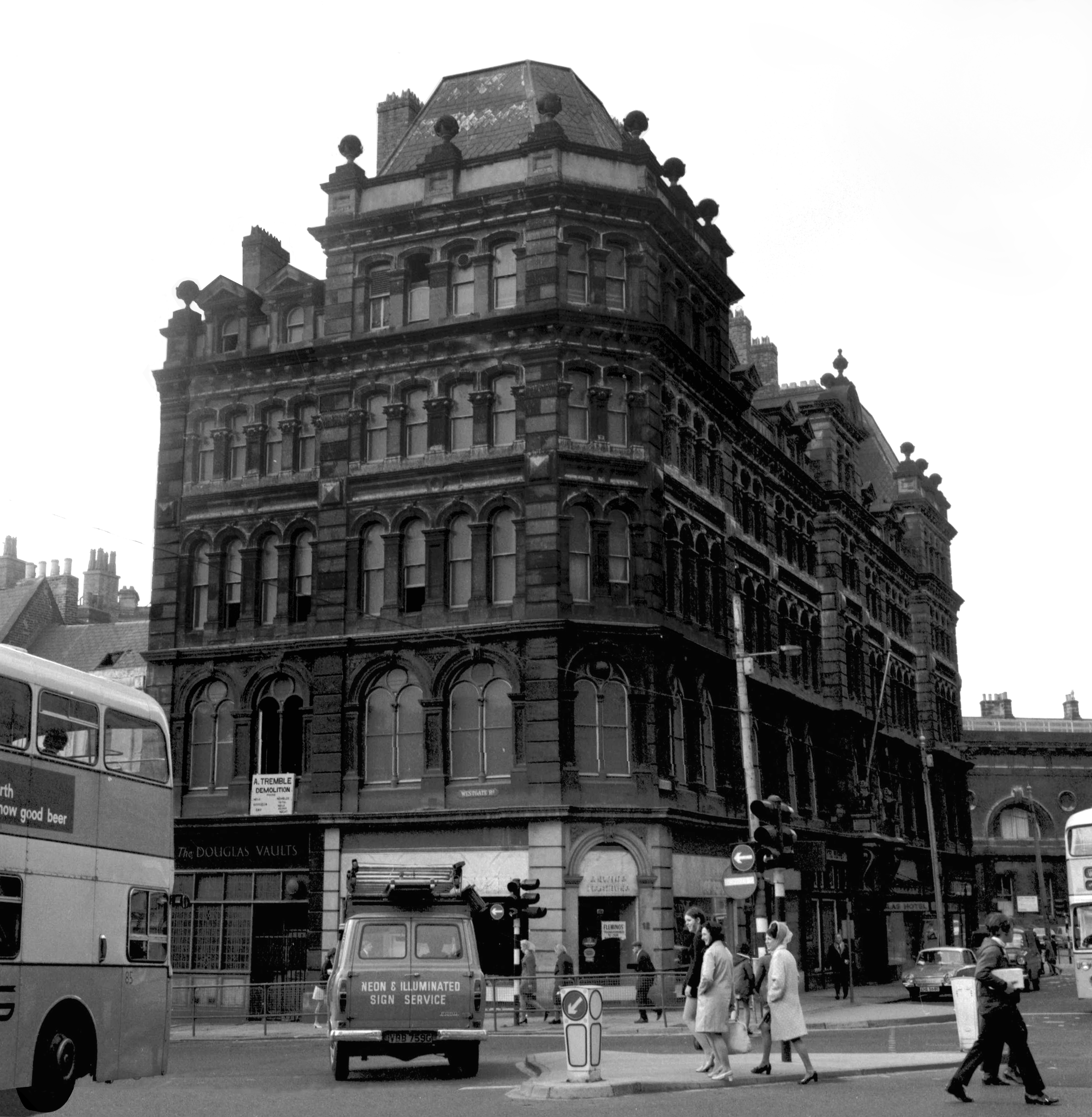 This photograph is from the Robert Hope collection . Robert Hope was a resident of Newcastle upon Tyne. In the early 1970s he took out a bank loan to buy a Rolleiflex camera. Over the next few years he photographed various Newcastle scenes, including the Grainger Market and the demolition of housing estates in the West End of the city. Robert Hope died in 2001. Thanks to Steven Hope for donating the collection to Tyne & Wear Archives & Museums. (Copyright) We're happy for you to share this digital image within the spirit of The Commons. Please cite 'Tyne & Wear Archives & Museums' when reusing. Certain restrictions on high quality reproductions and commercial use of the original physical version apply though; if you're unsure - for image licensing enquiries please follow this link